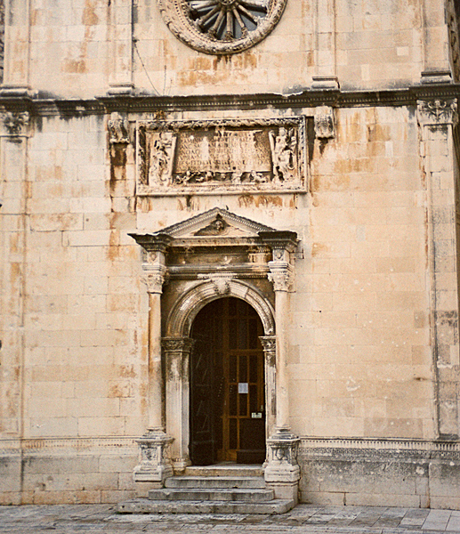 The Church of Saviour, Dubrovnik